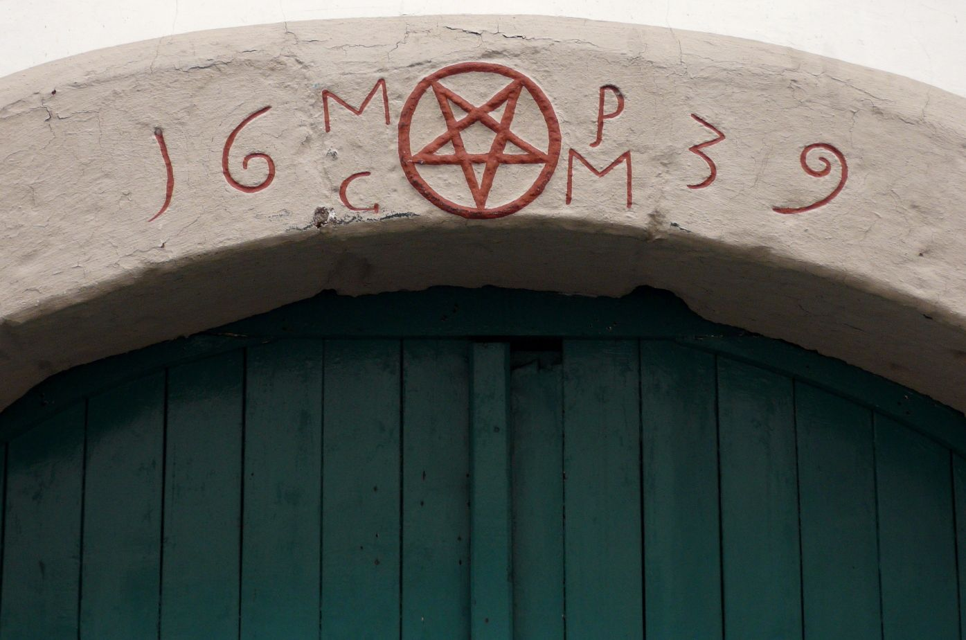 Drudenfuss, magical symbol on a house at Ahrweiler from 1639